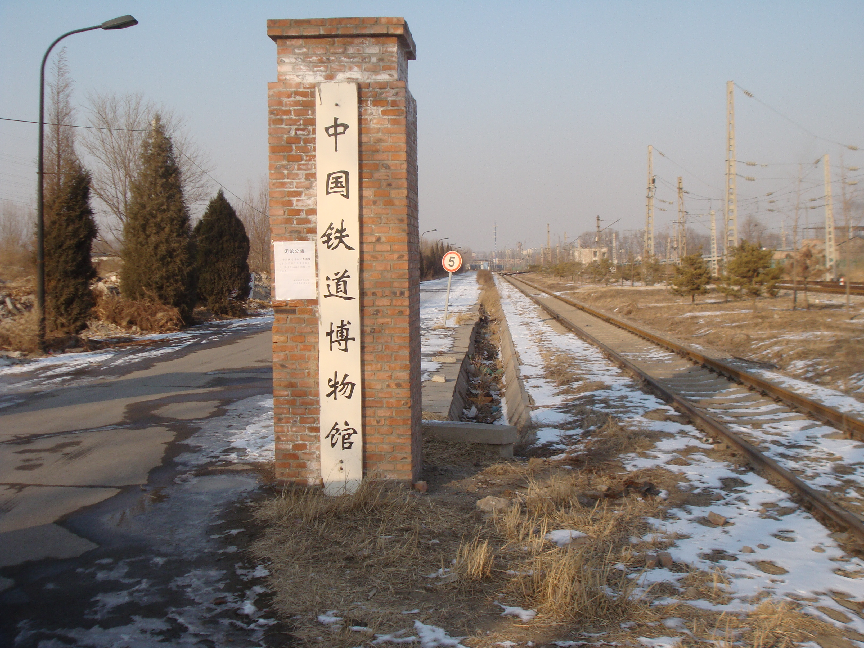 The gate of China Railway Museum.